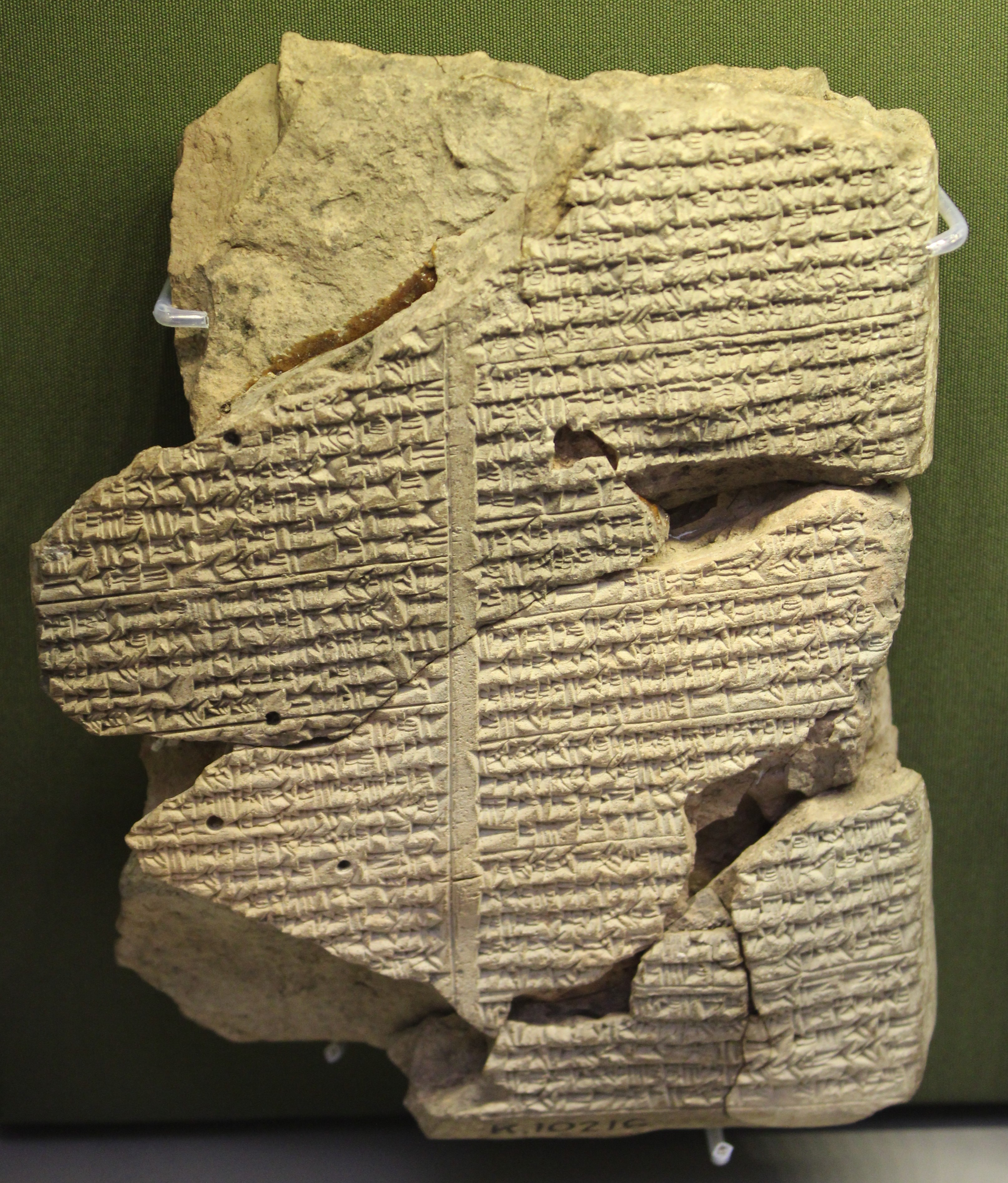 Tablet describing a ritual for a substitute king. Nineveh, 7th c. av. J.-C. Fragments K.2600 + K 9512 + K 10216. Cf. W. G. Lambert, AfO 18, 1957-1958 p. 109-112.